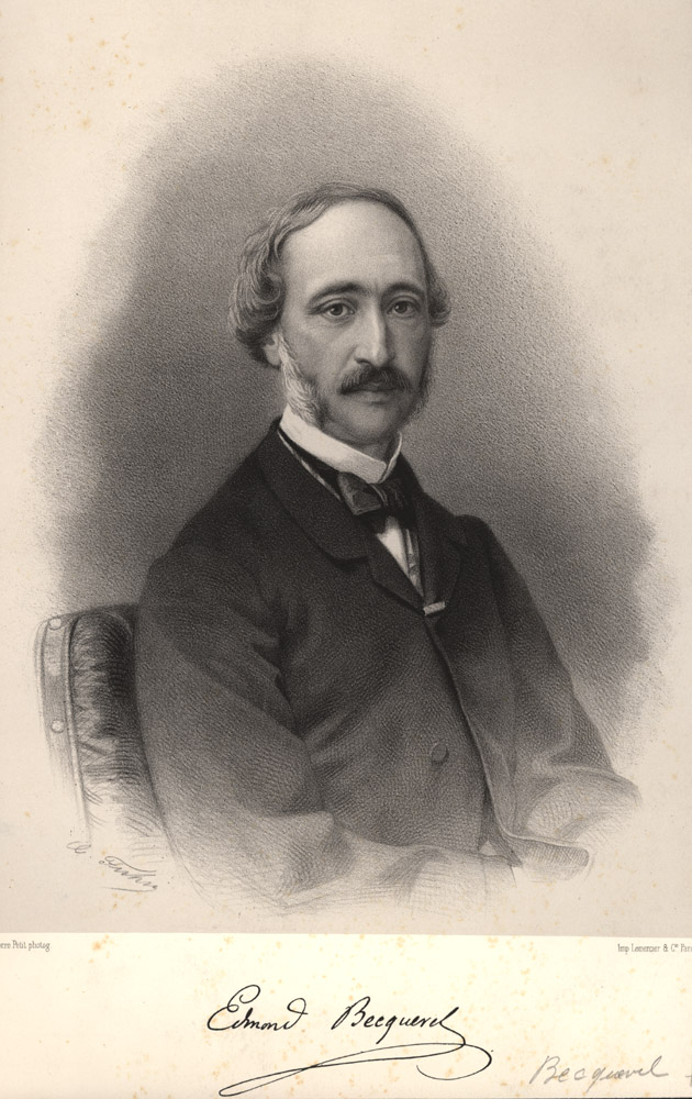 Portrait of physicist Alexandre-Edmond Becquerel, father of Henri Becquerel.